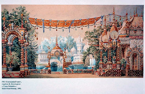 Konstantin Ivanov's original sketch for the set of The Nutcracker (1892).